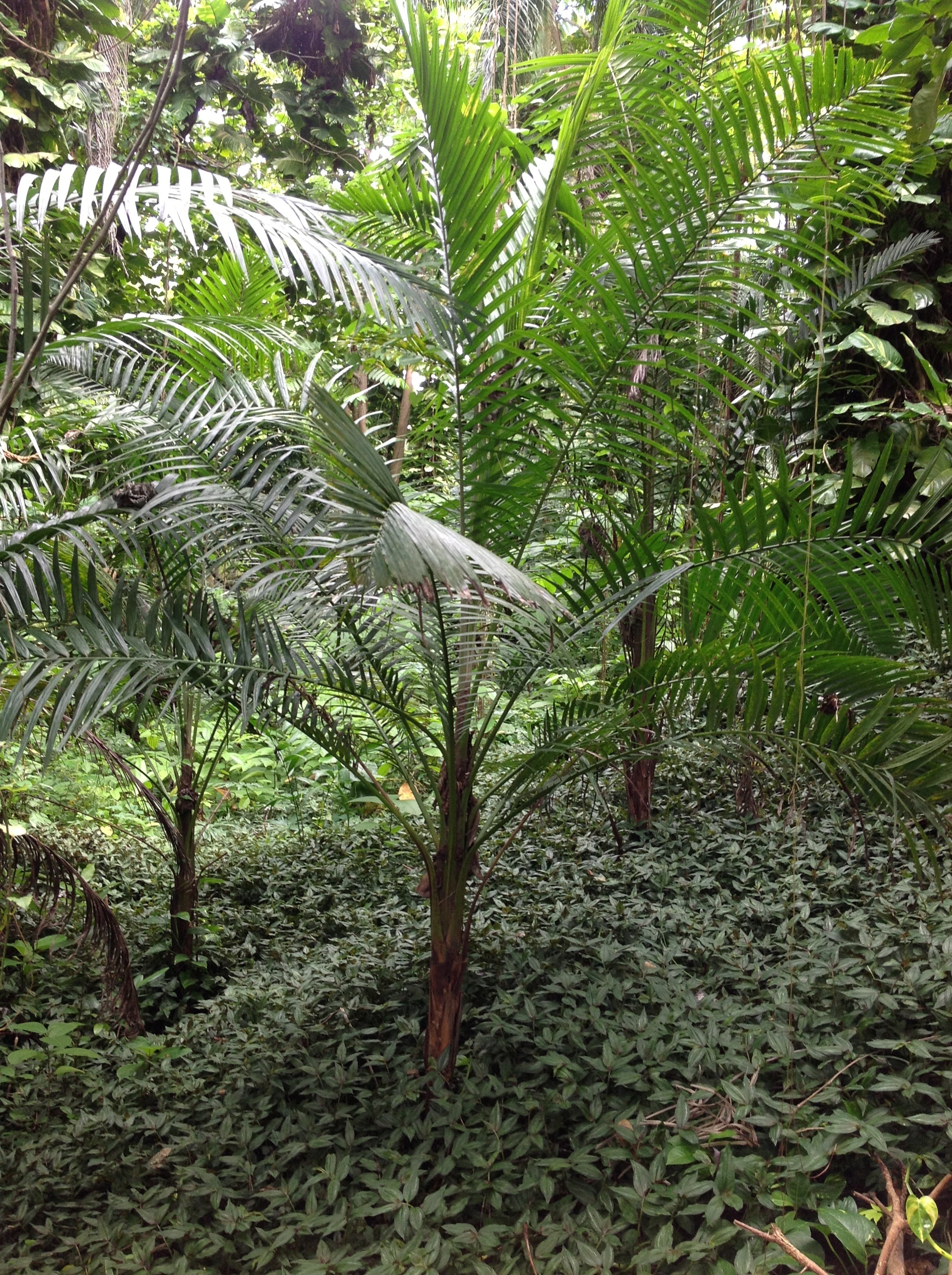 Reinhardtia Palm from Isla Hispaniola found AT Sierra de Bahoruco